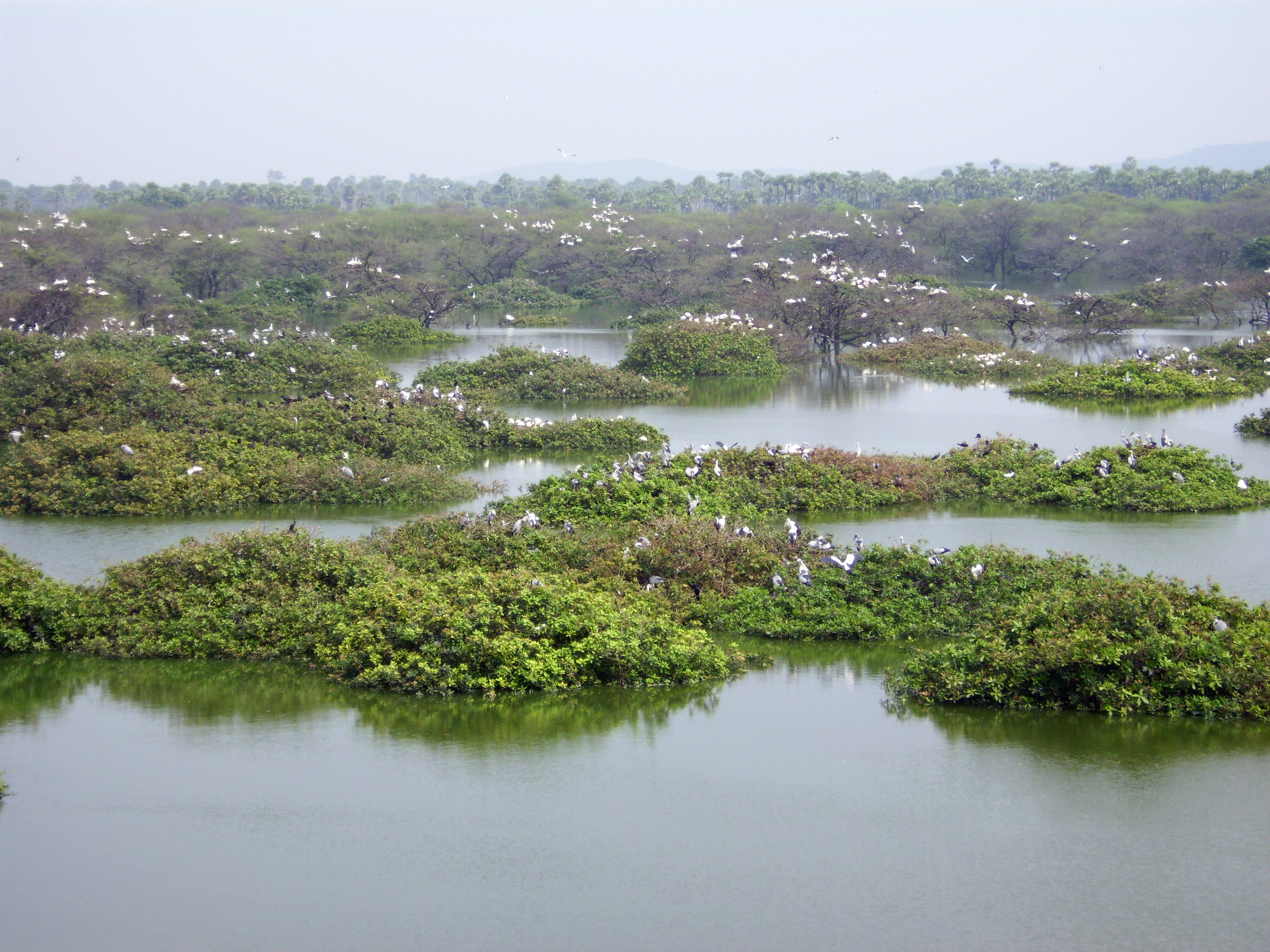 Vedanthangal Lake Bird Sanctuary - View from one of the viewing galleries (a watch tower). The watch tower is accessible by a pathway that partially traverses the perimeter of the lake.